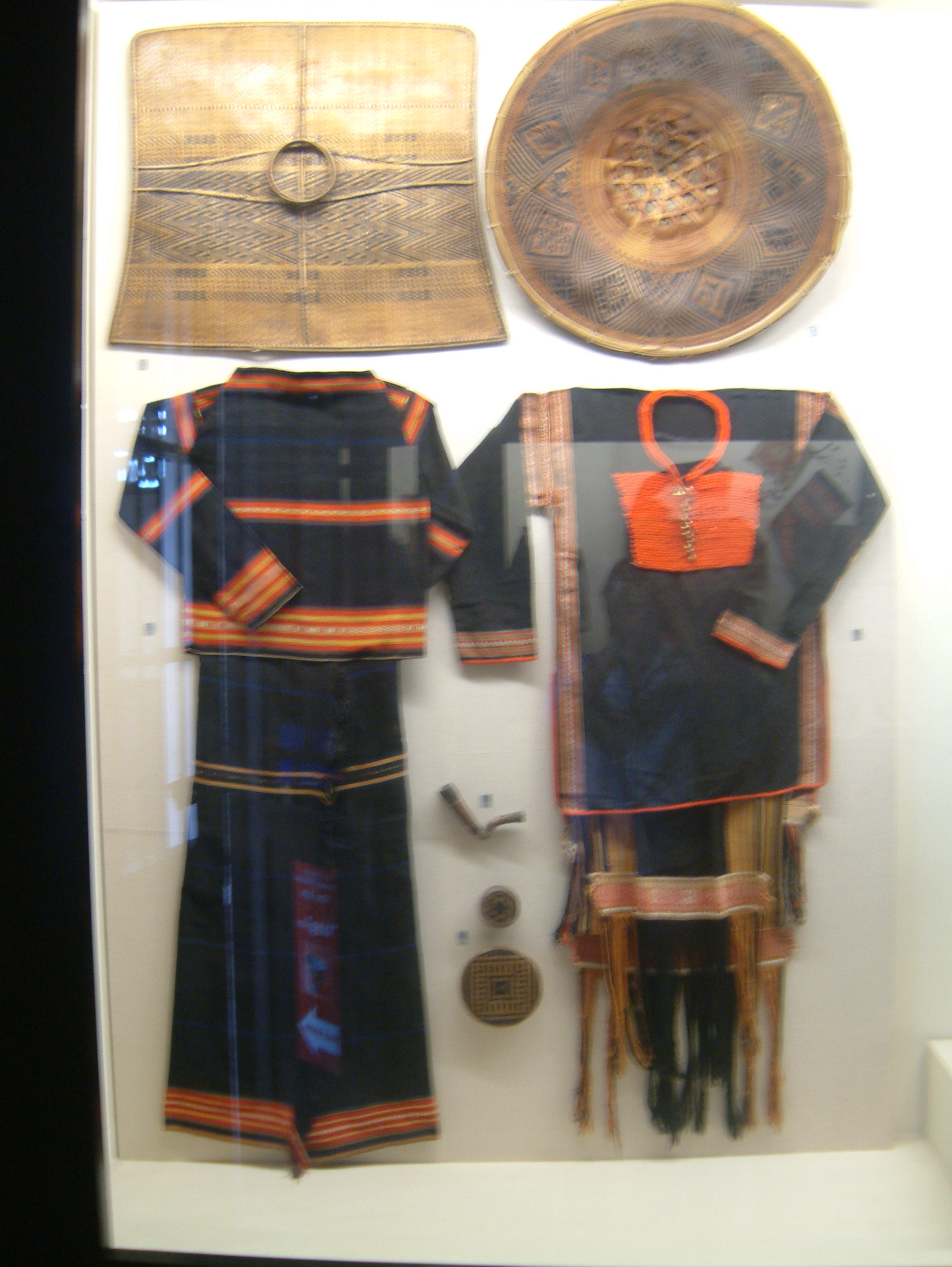 Men’s and women traditional clothing of Bahnar people (Vietnam Museum of Ethnology)